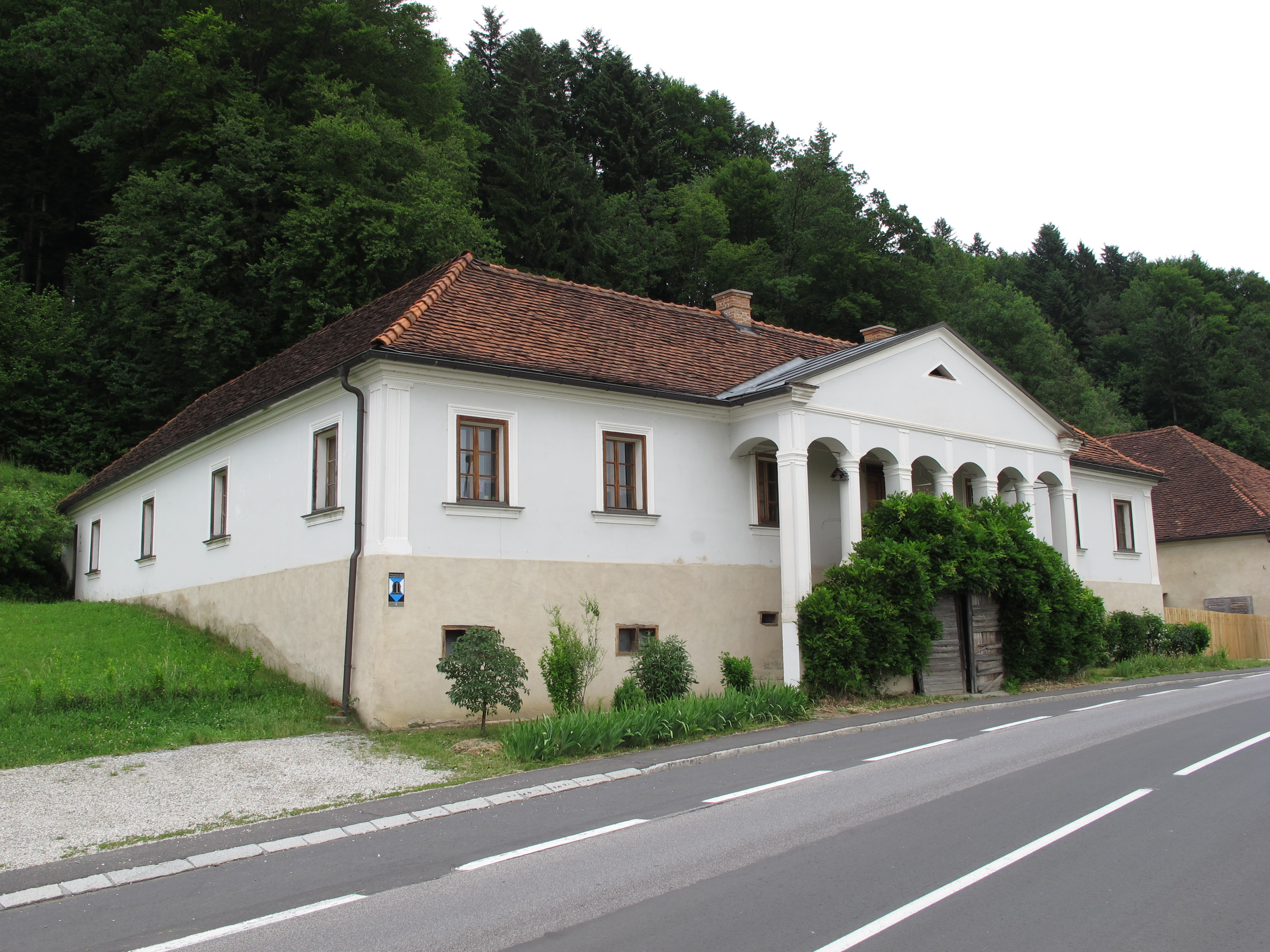 Erzherzog Johann Haus, Rohr an der Raab